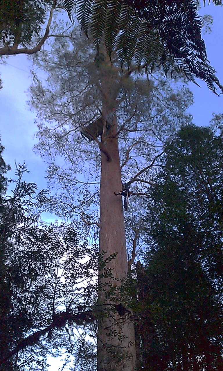 Protester climbing to a tree sit in Upper Florentine Valley, Tasmania.